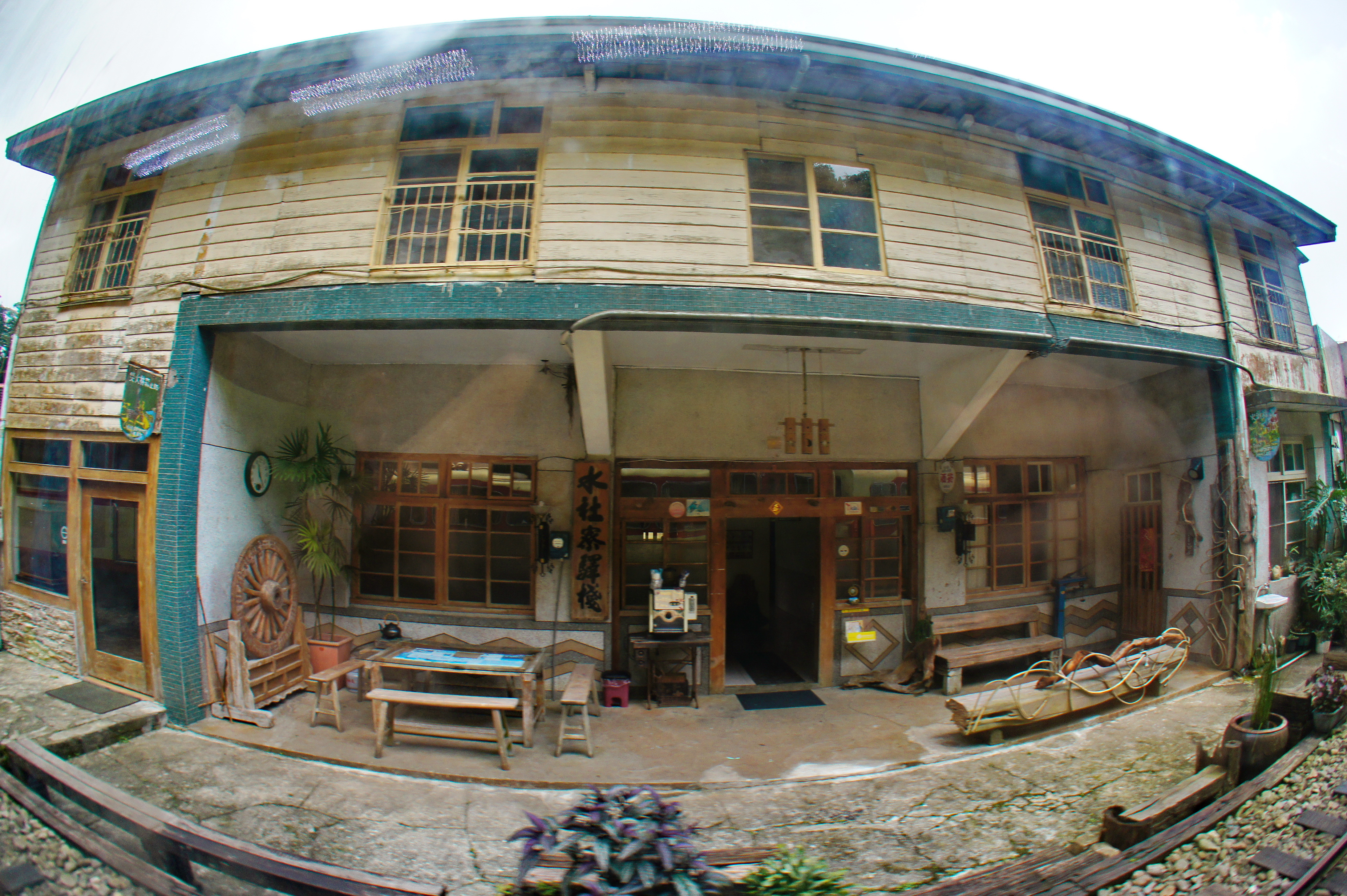 A fisheye shot of a bed and breakfast inn near the Shuisheliao station, Chiayi county, Taiwan.